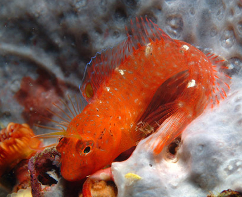 Zvonimir's blenny (Parablennius zvonimiri) photographed in Tuscany (Italy). Photo by Stefano Guerrieri.